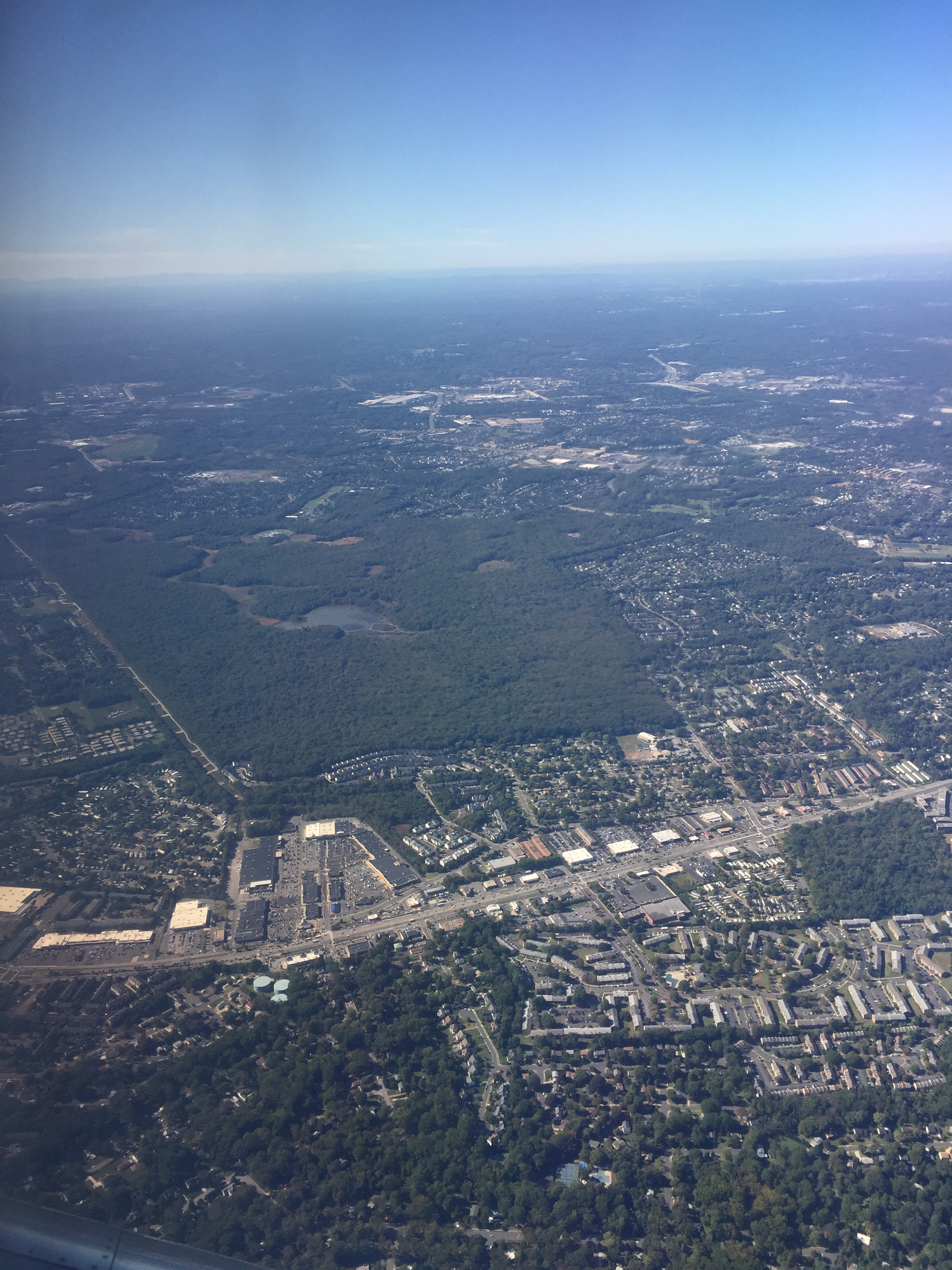 Aerial photograph of Huntley Meadows Park in Fairfax County, Virginia in 2017. The U.S. Route 1 corridor through Hybla Valley is visible in the foreground. View is from the east.